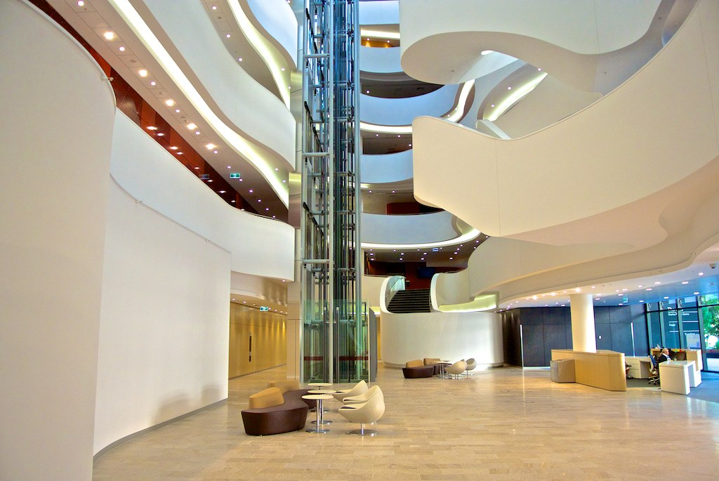 CPC interior